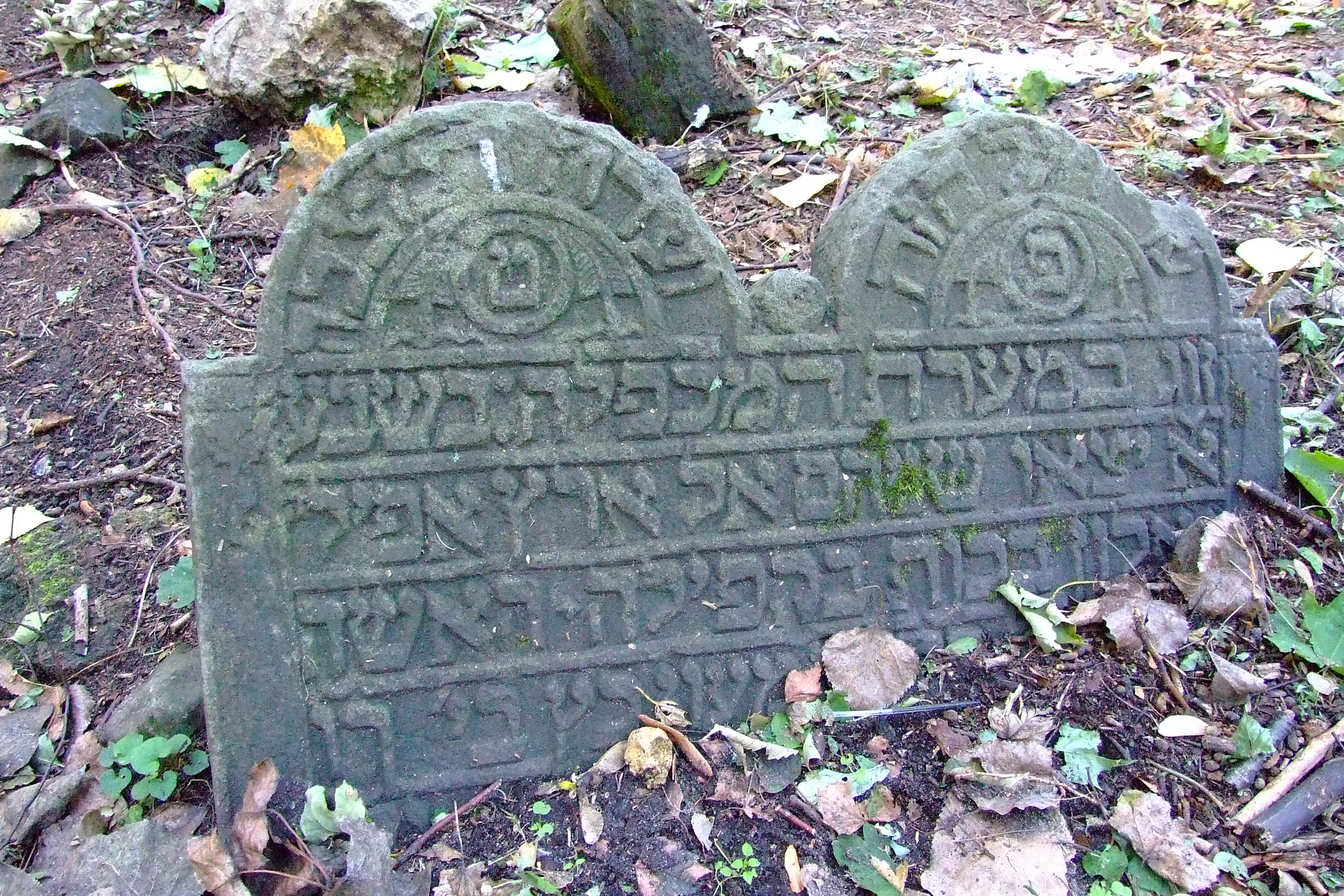 Jewish cemetery in Będzin